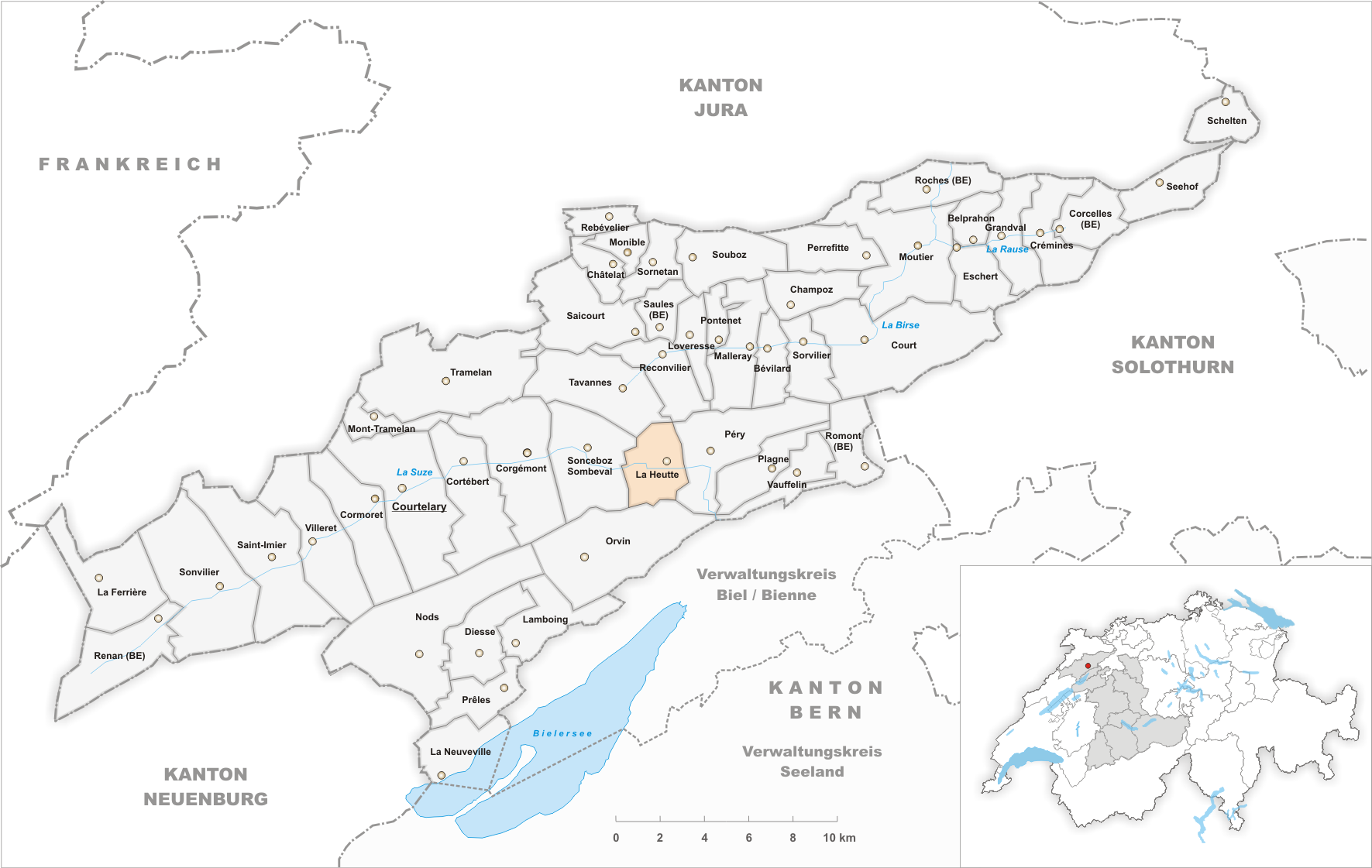 Municipality La Heutte